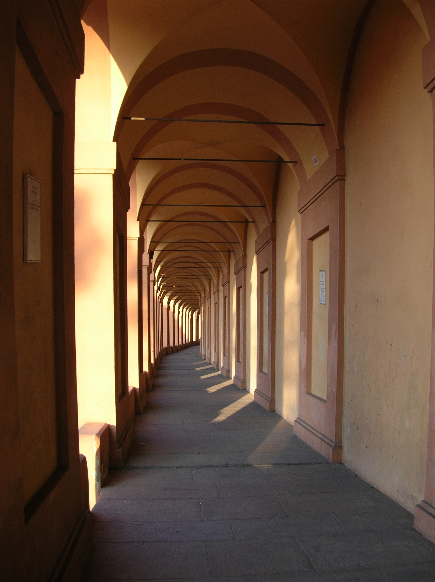 Porch of San Luca